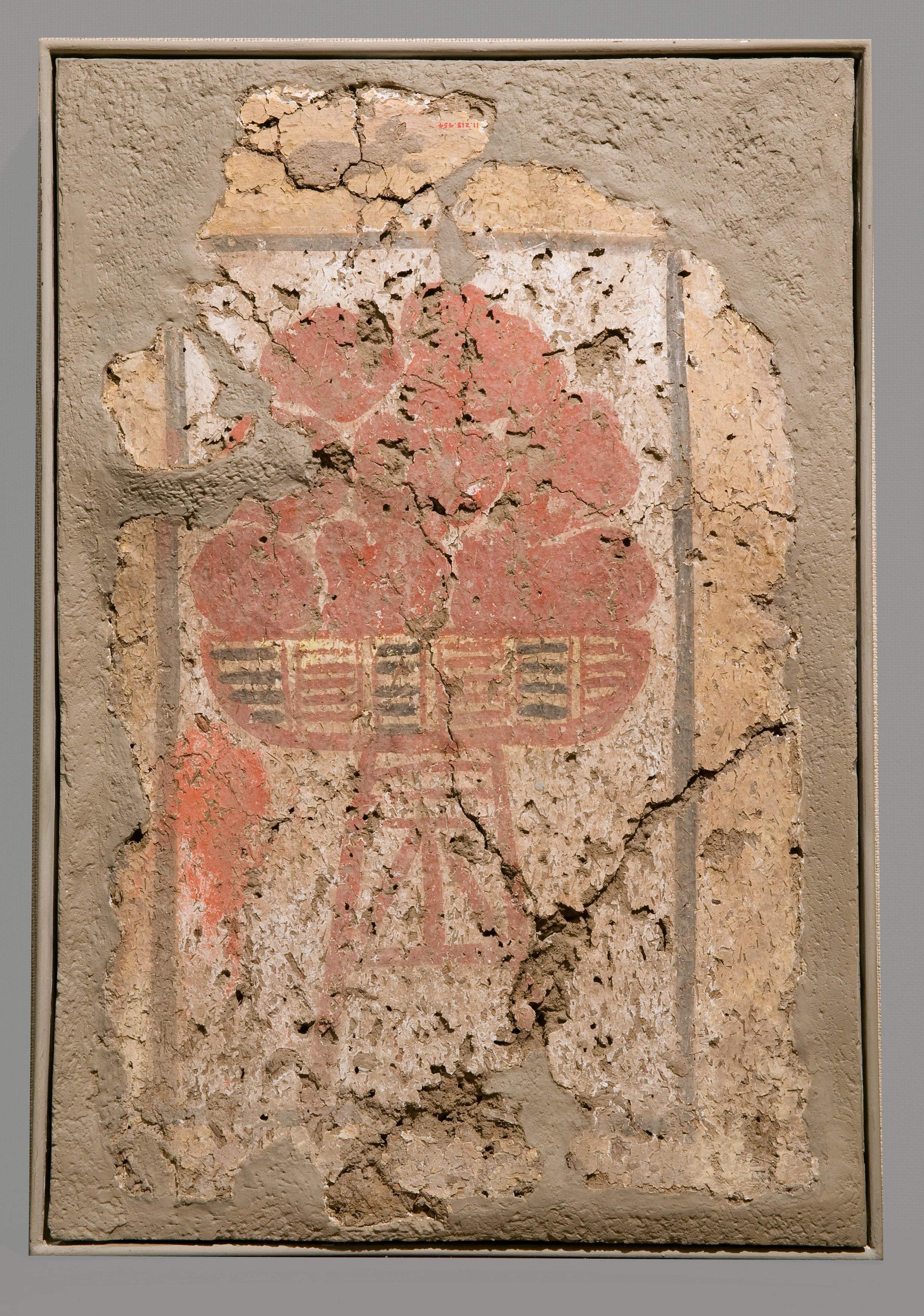 Painting on mud plaster